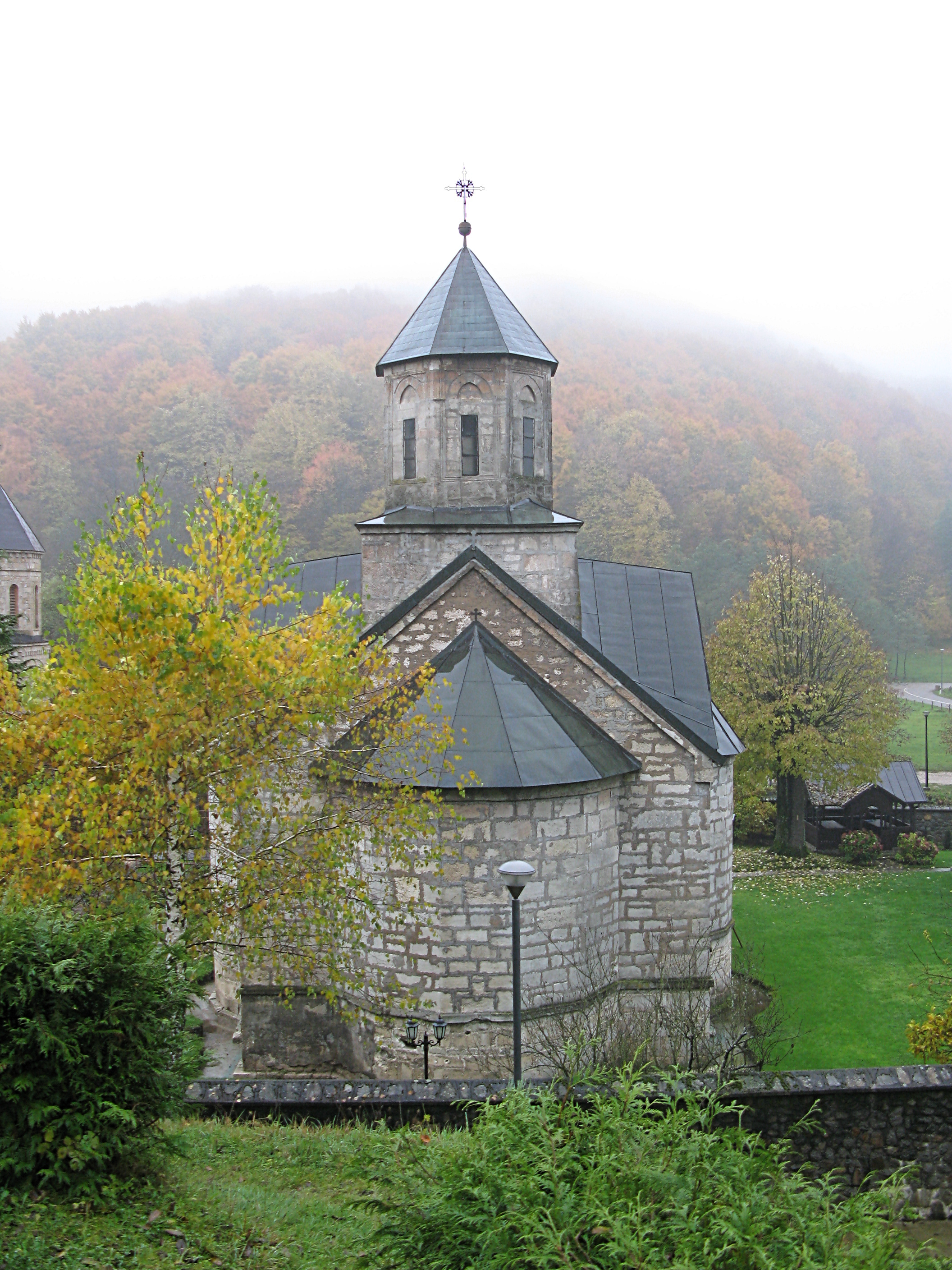 Moštanica monastery of Serbian Orthodox church underneath of Kozara mountain, Republika Srpska.